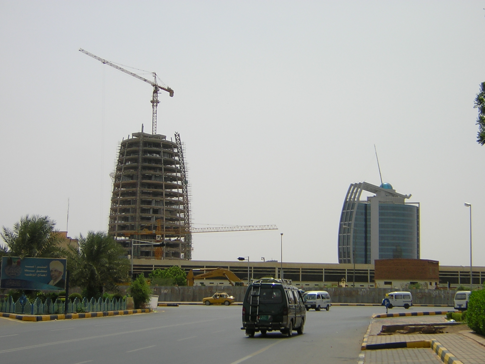 New buildings in Khartoum, Sudan.